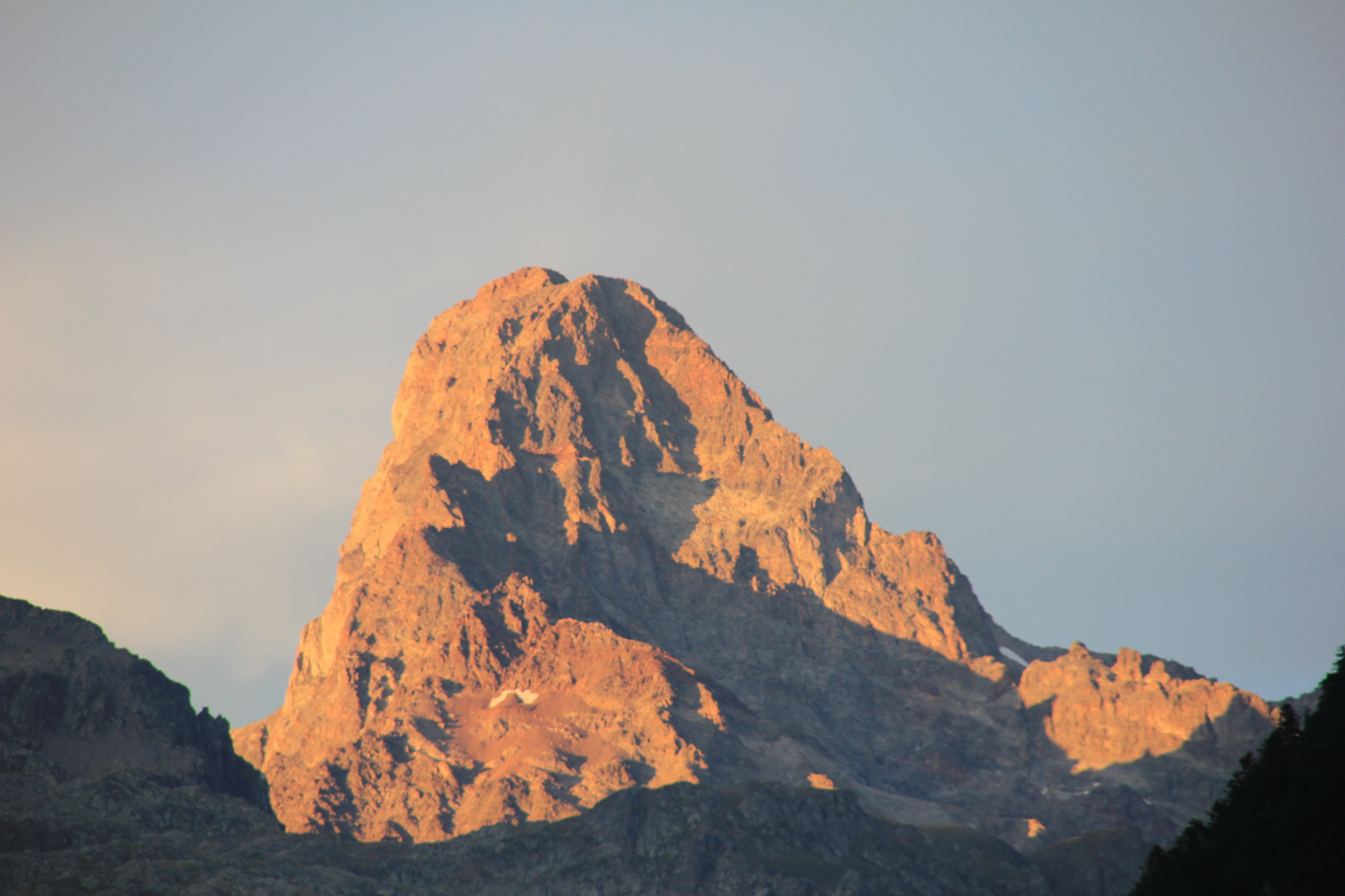 Mount Olan, viewed from the Valogodemar Valley